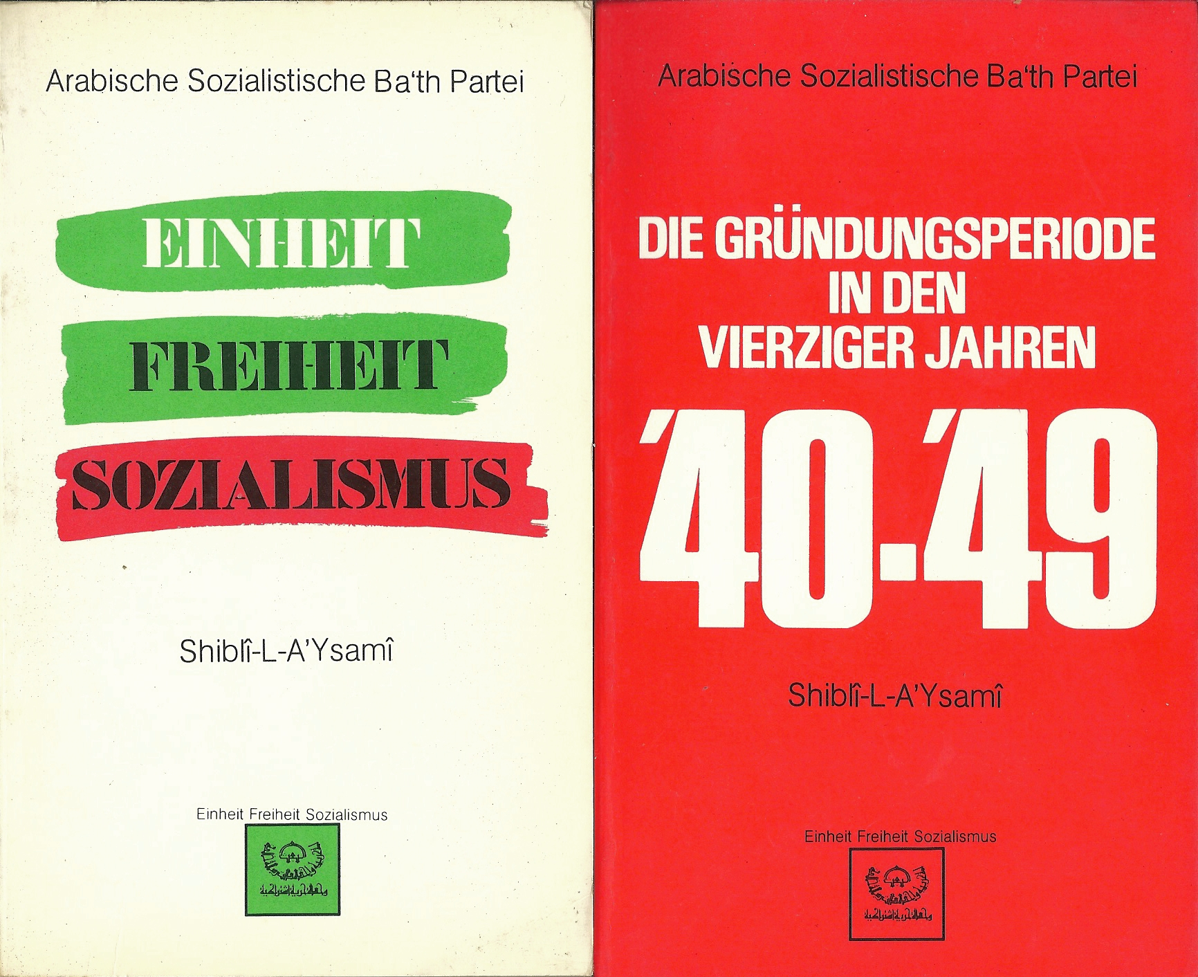 Frontcovers of two books written by Shibli al-Aysami about the concepts and history of the Arab Socialist Ba'th Party: 1. Einheit Freiheit Sozialismus (Unity, Freedom, Socialism), 2. Die Gründungsperiode in den vierziger Jahren (The founding period in the 1940s)